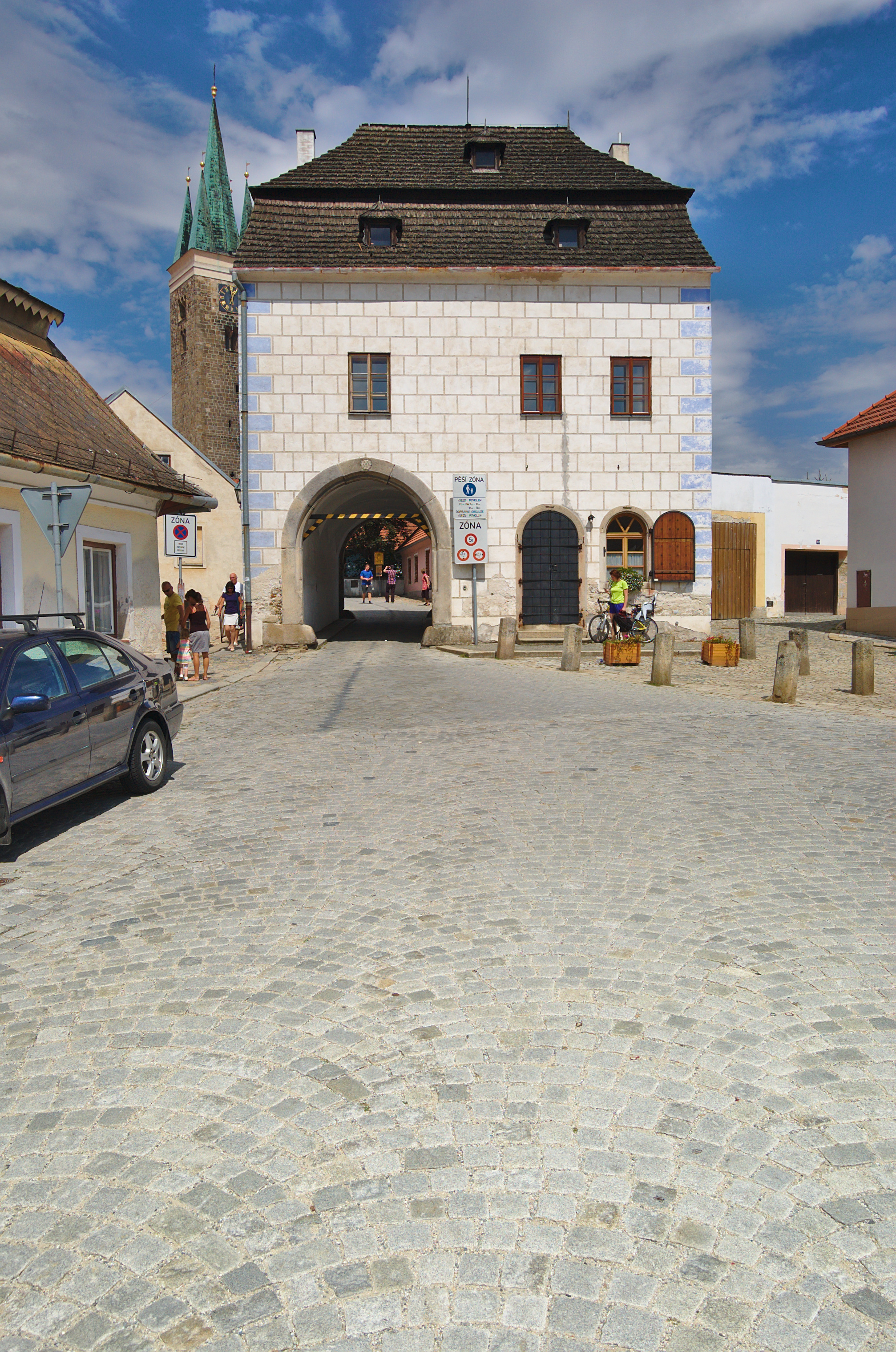 Upper gate, Telč